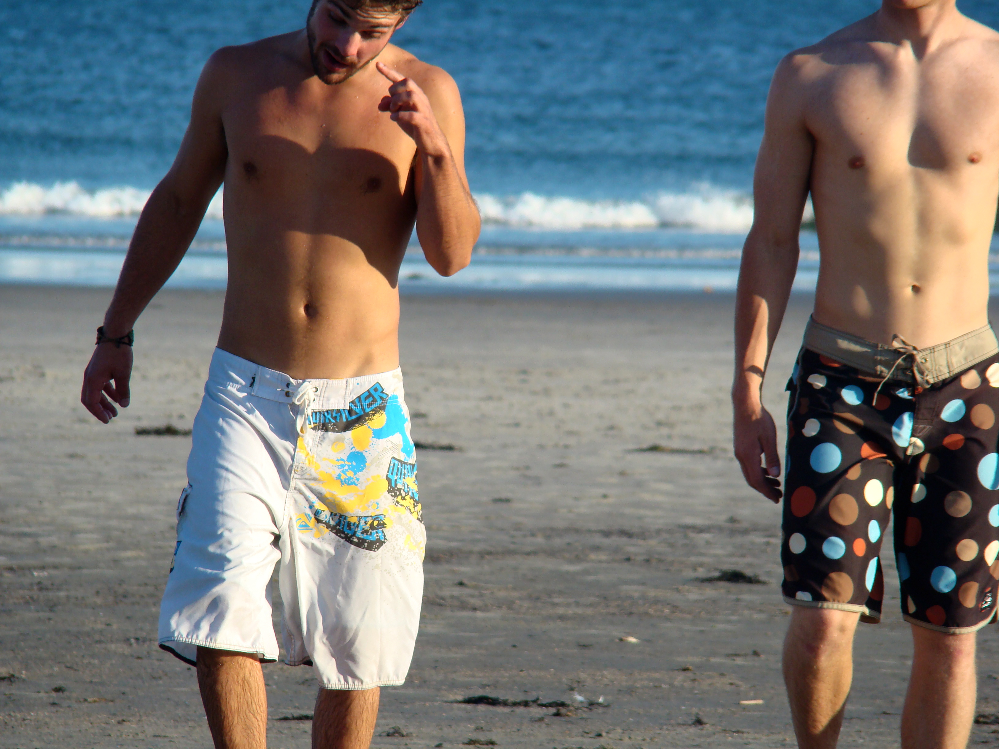 Board shorts